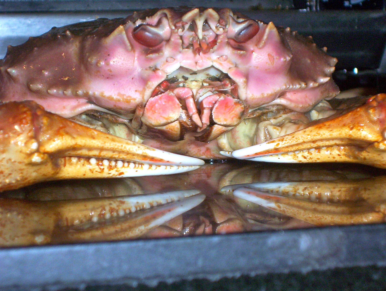 close up of the "face" and claws of a live tanner crab